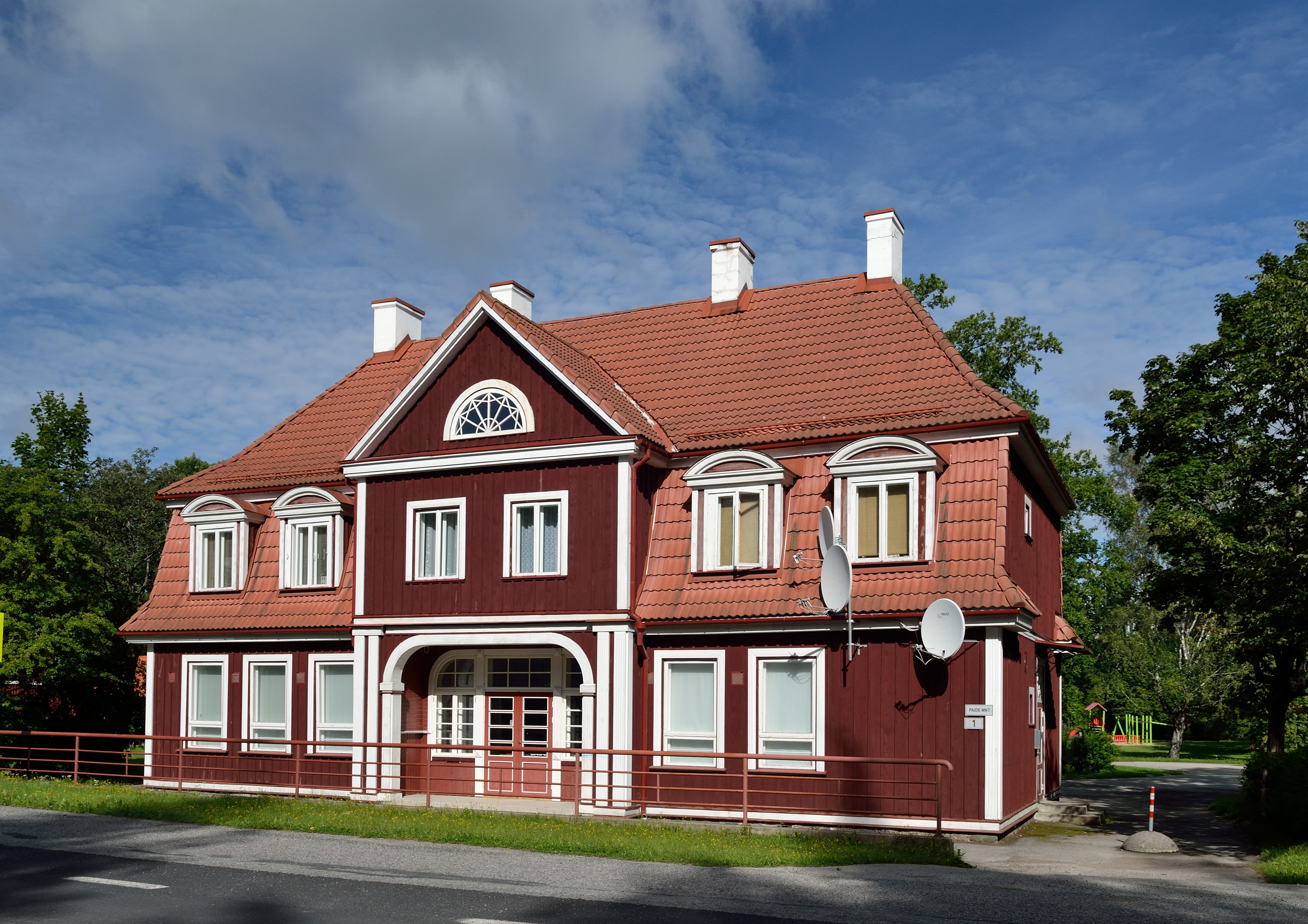 Sindi train station main building